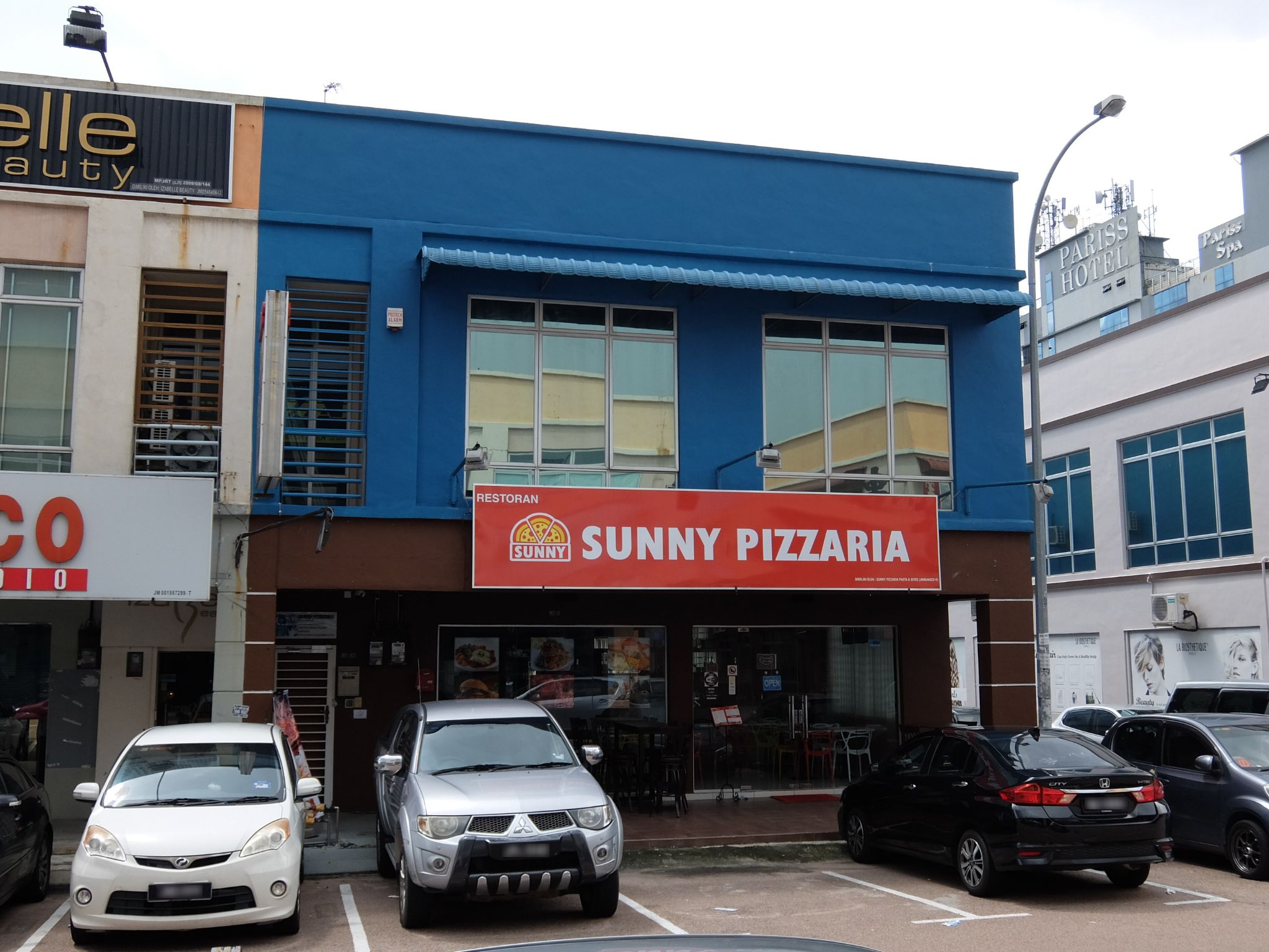 Sunny Pizzaria, Nusa Bestari, Skudai, Iskandar Puteri, Johor, Malaysia